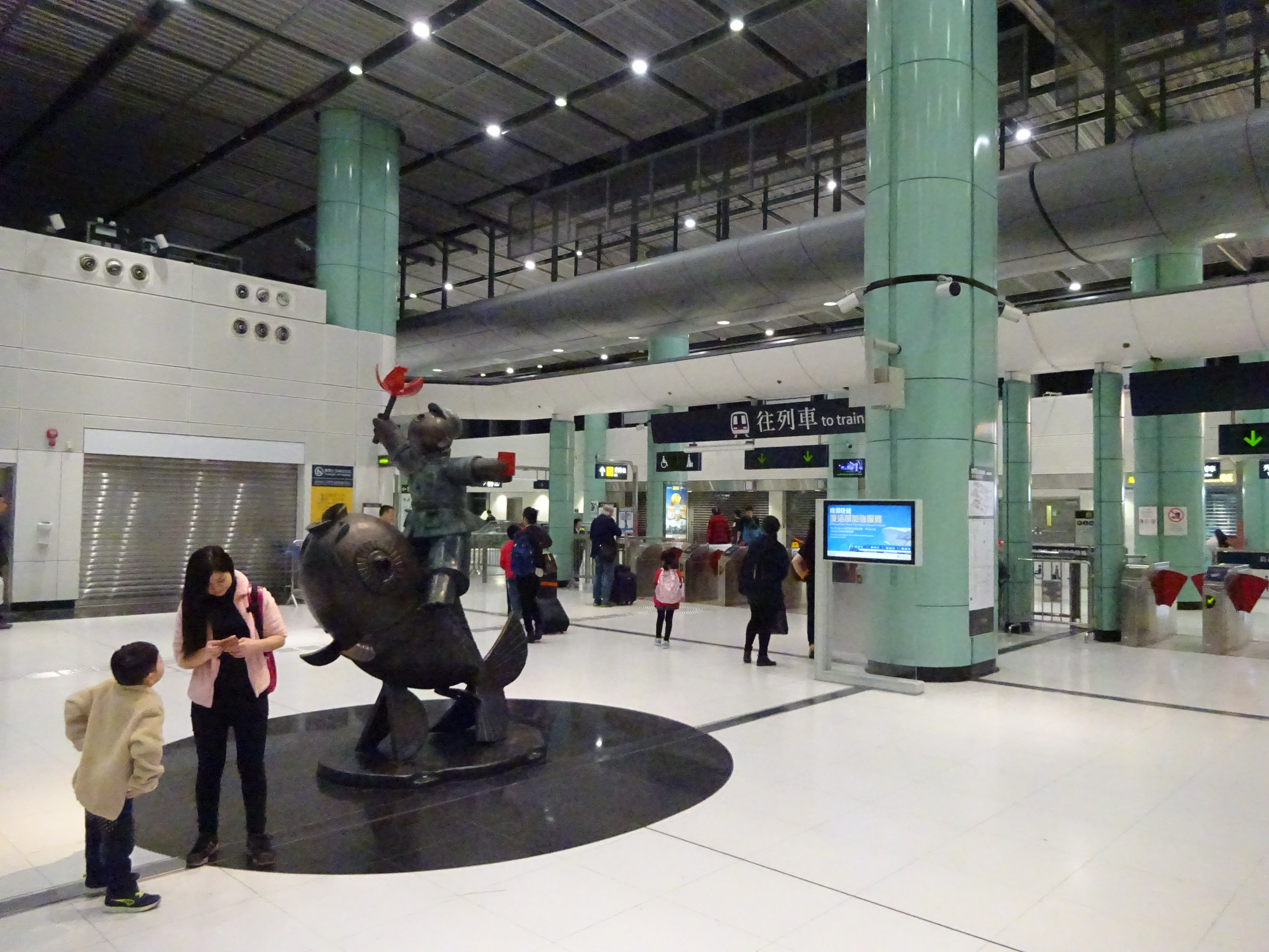 HK Lok Ma Chau MTR Station 落馬洲站 Bauhinia Rider sculpture Chinese Scuptor 蔣朔 Jiang Shuo Bronze statue March 2016 Concourse Level 3